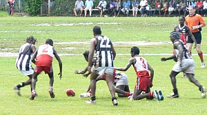 it is game played by aborigianals in the yrs.